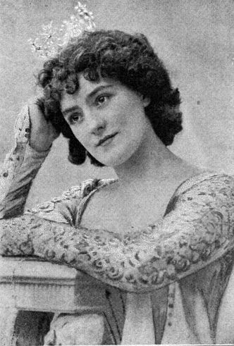 A publicity photo of Louie Pounds that formed part of an advertisement for The Emerald Isle in the April 24, 1901 issue of The Sketch.